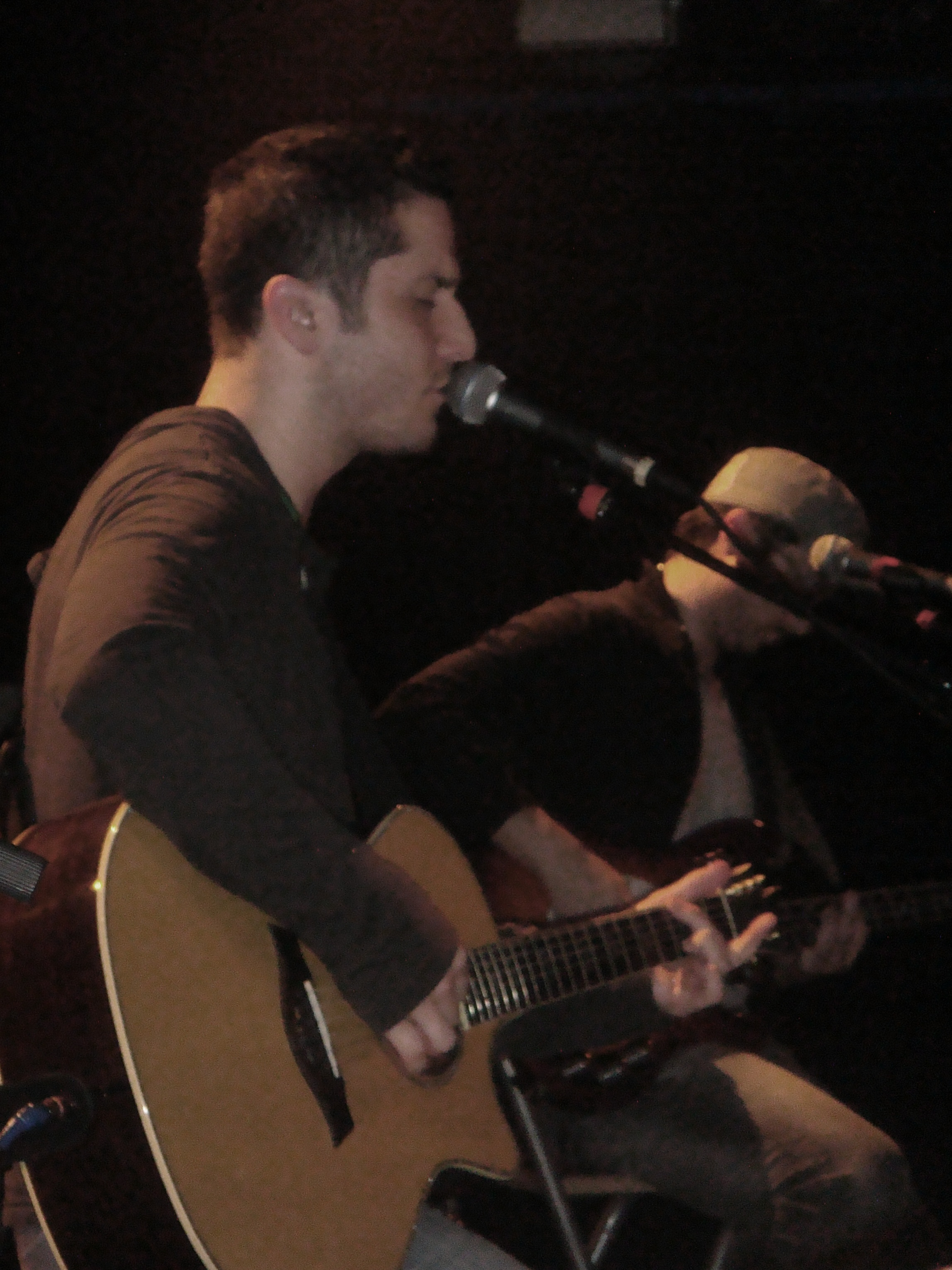 Alejandro Manzano and Daniel Manzano in Strasbourg in November 2010